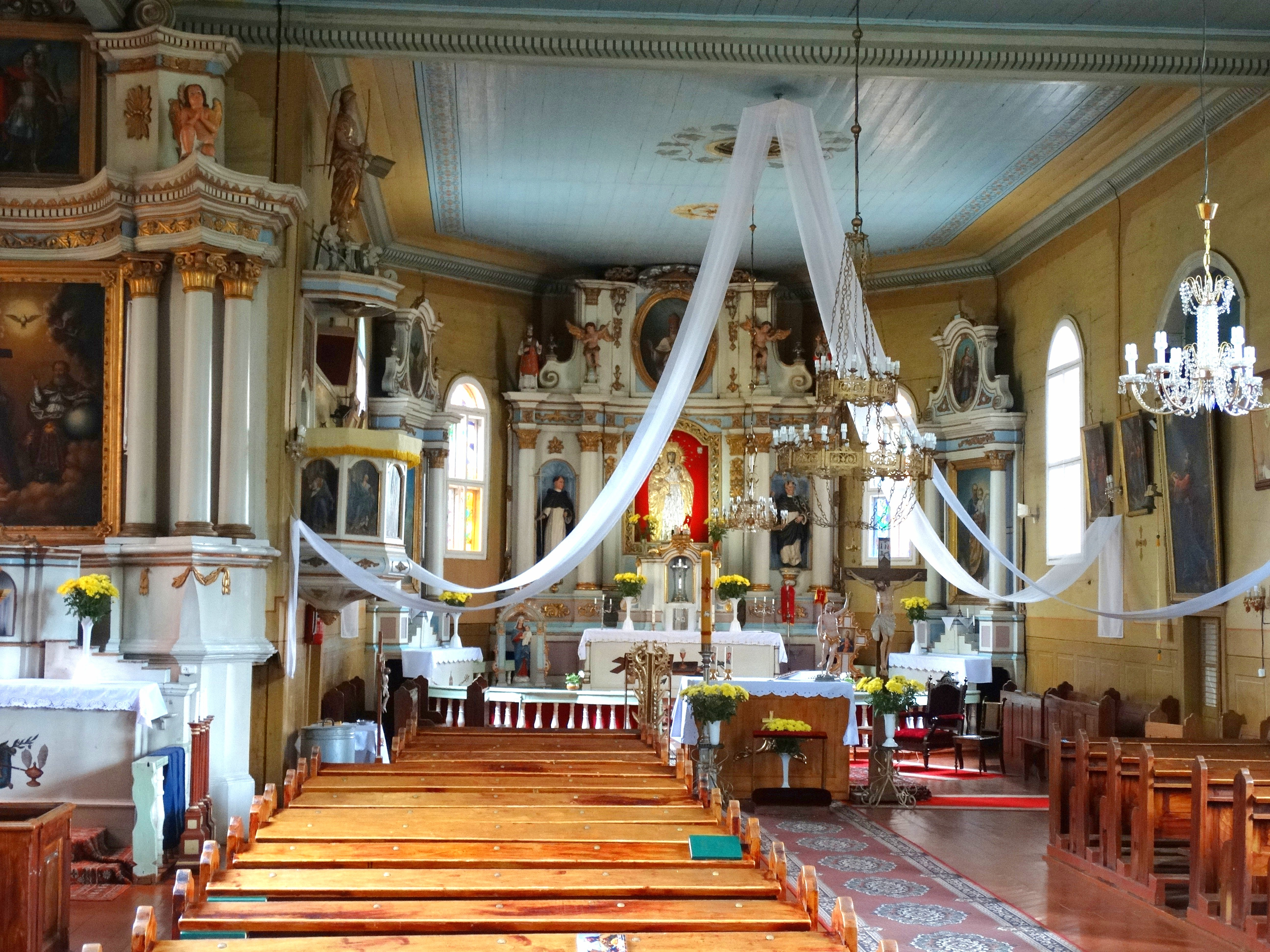 Rozalimas, church interior, Pakruojis District, Lithuania